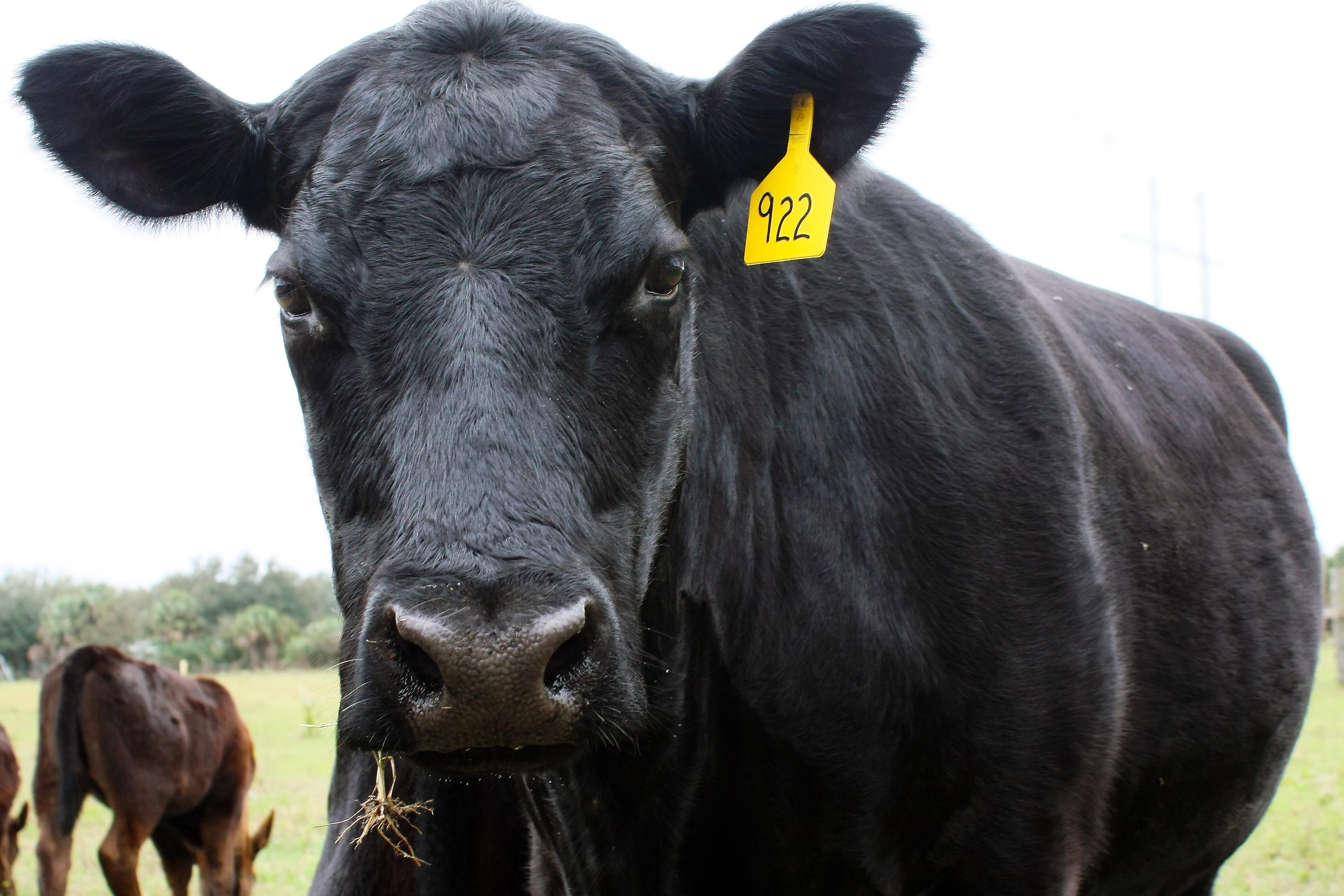 Black Angus cow, Riverview, Florida, 2014